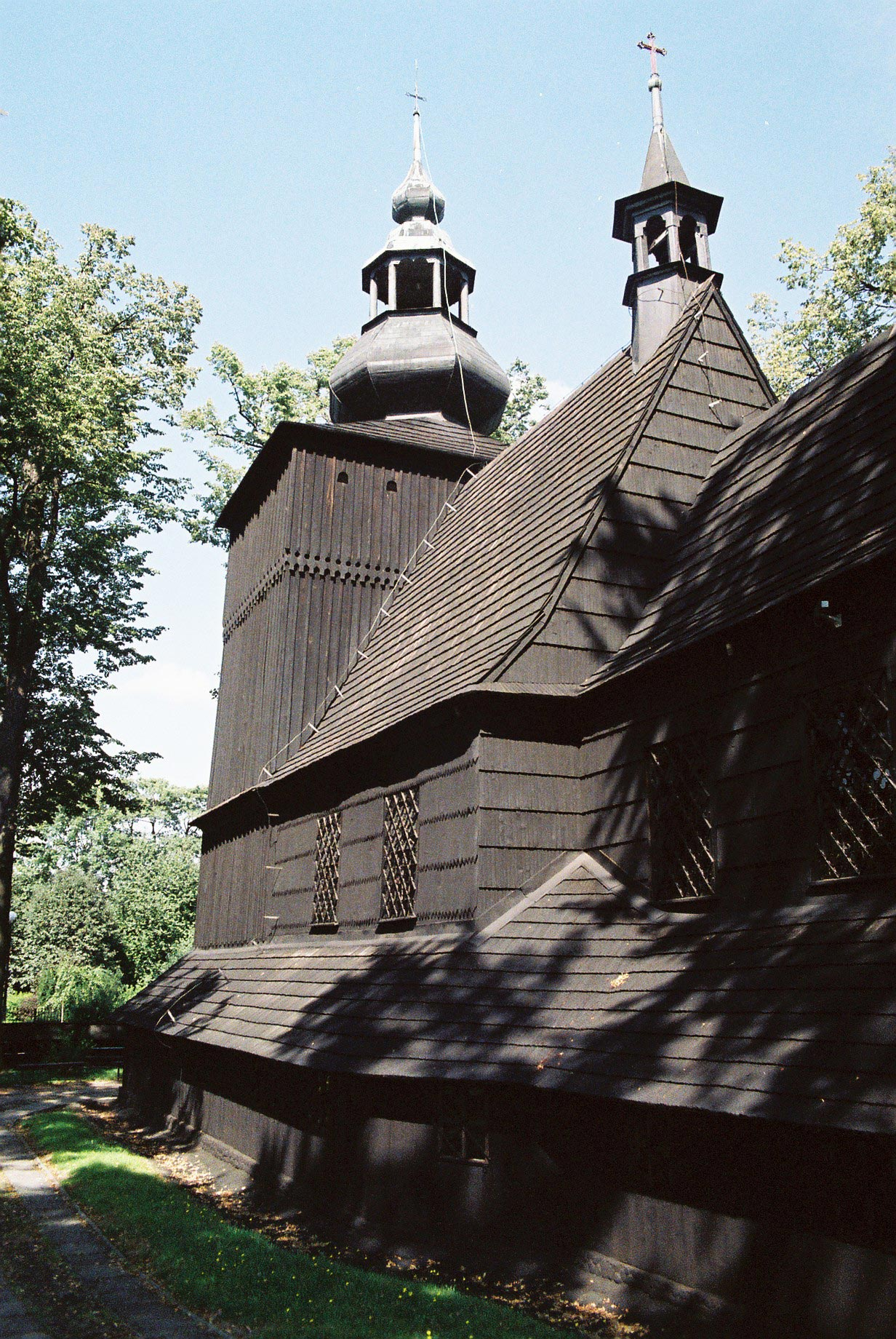 Bielsko-Biała, Poland. Wooden church in Mikuszowice Krakowskie district.